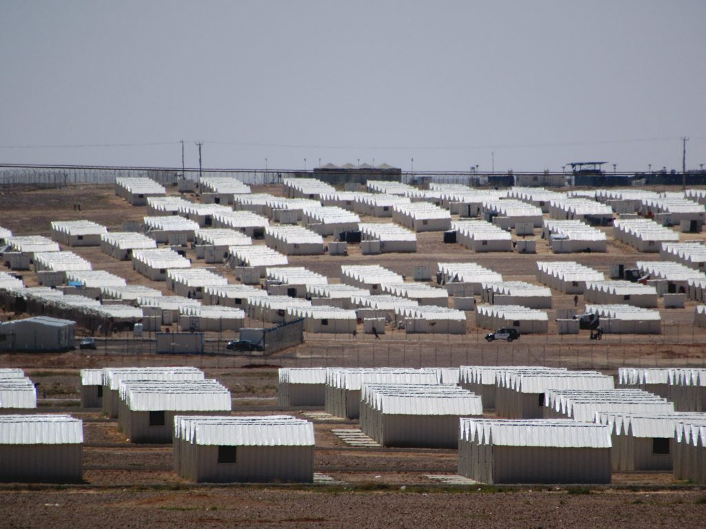 In 2014 the Azraq Camp was established in the desert near a Jordanian air base 80 kilometers east of Amman. Many of the huts remain empty as the harsh location and basic conditions are unpopular among Syrian refugees.